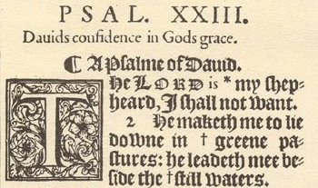 KJV of 1611 sample